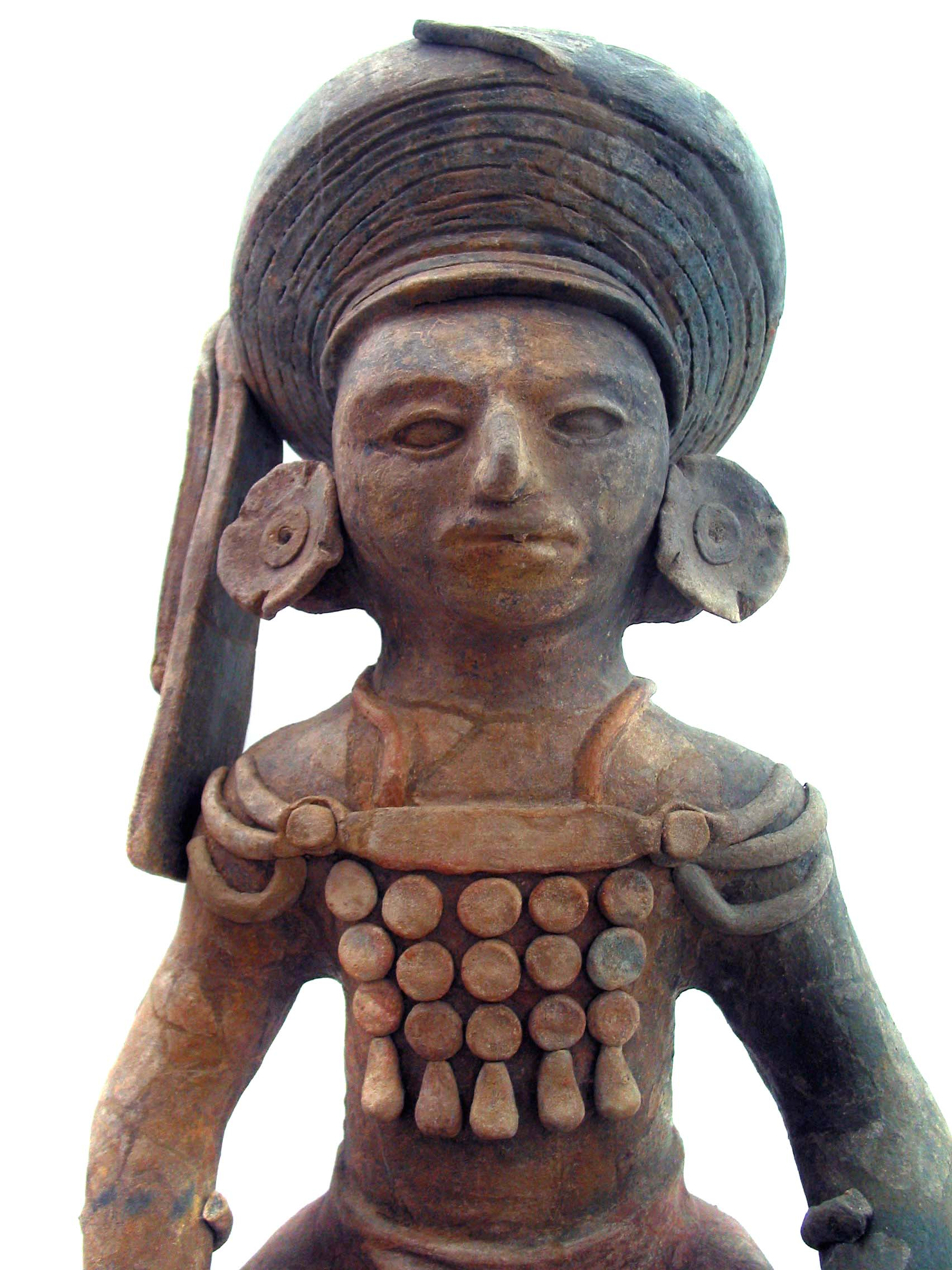 Sculptured clay incense burner lid from the tomb of the 12th ruler of Copan